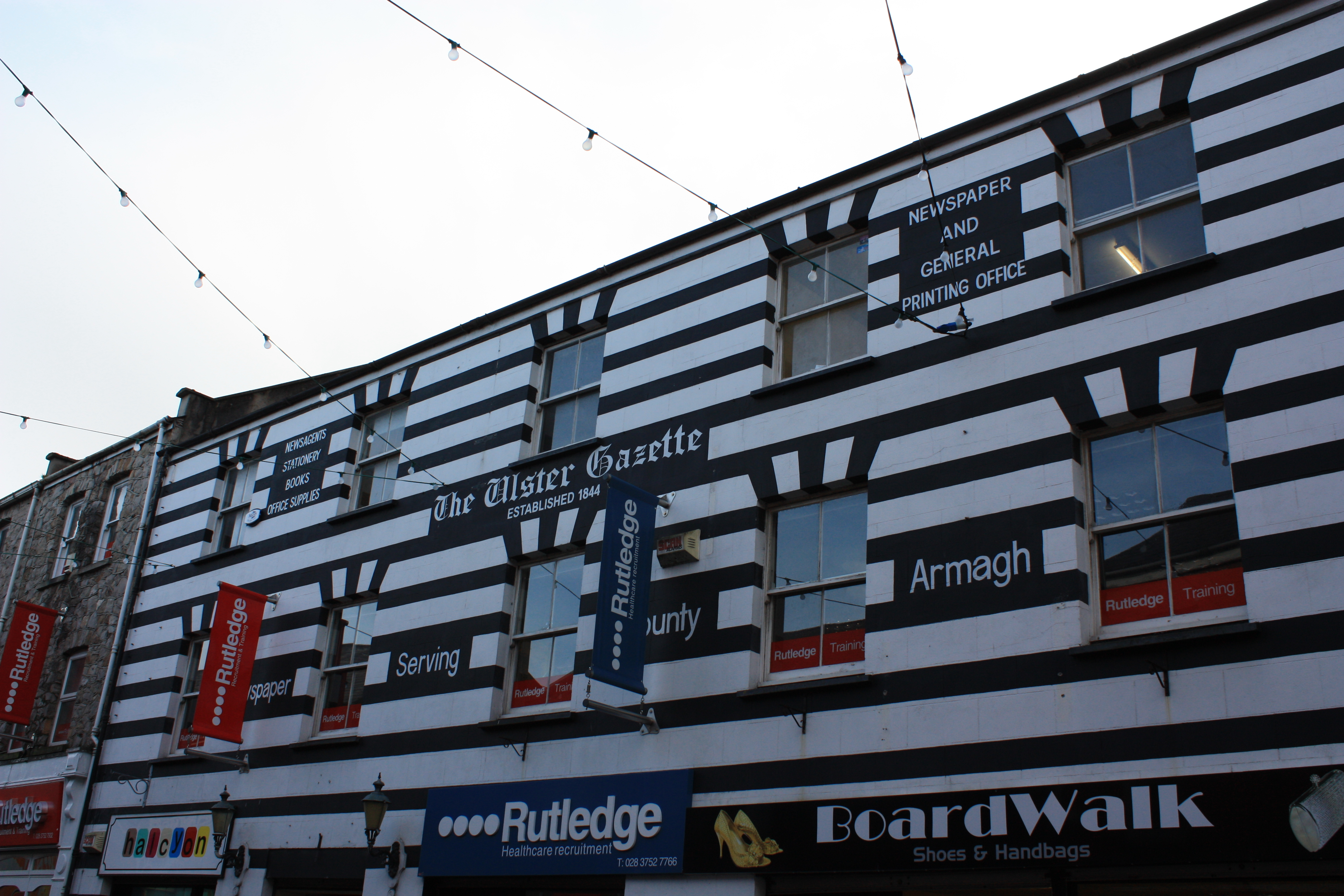 Ulster Gazette, Scotch Street, Armagh, County Armagh, Northern Ireland, November 2009